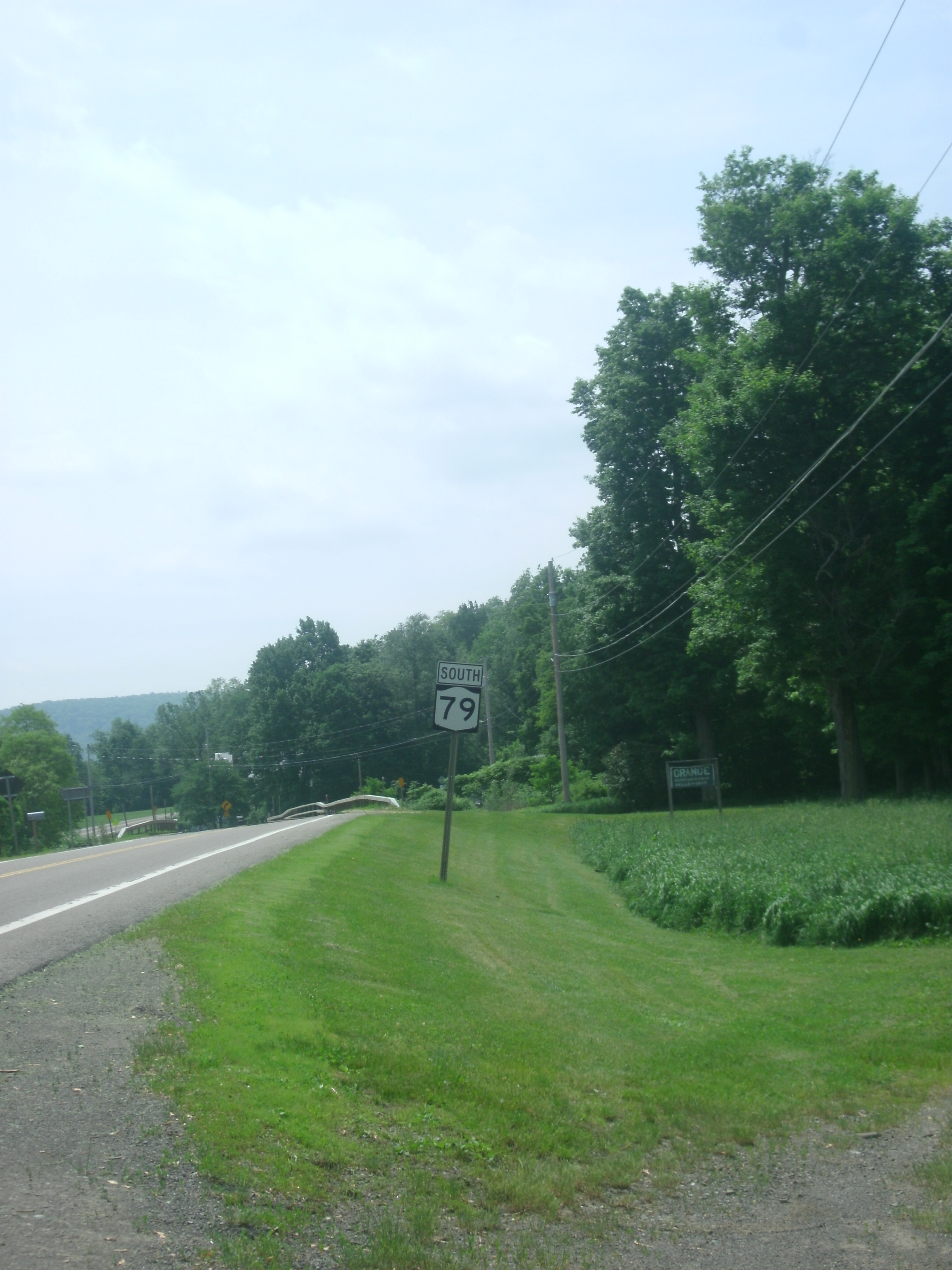 New York State Route 79 heading southbound from the intersection with Broome County Route 16 in Windsor, New York towards the state line.